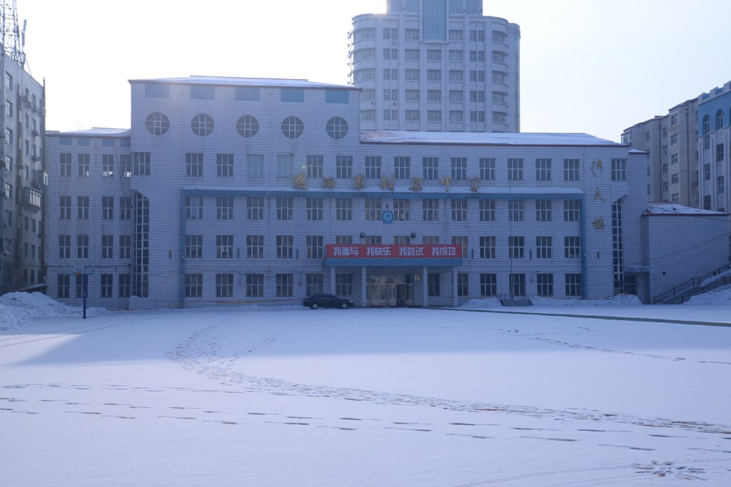 Shaw Memory Campaign